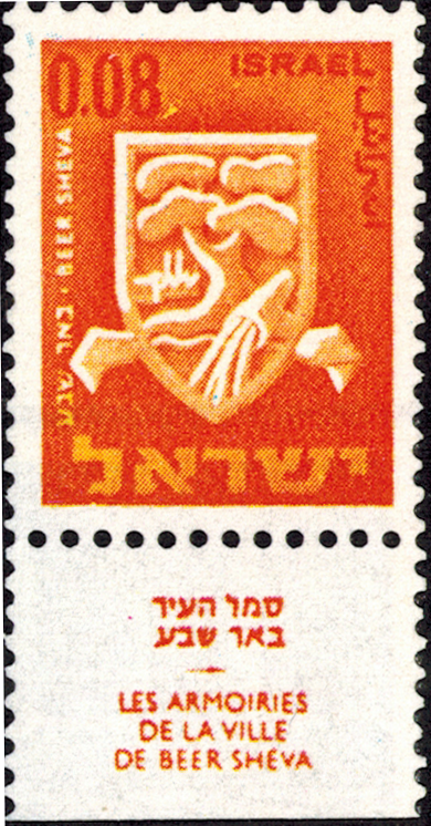 COA of the city of Beer Sheva in an israeli stamp